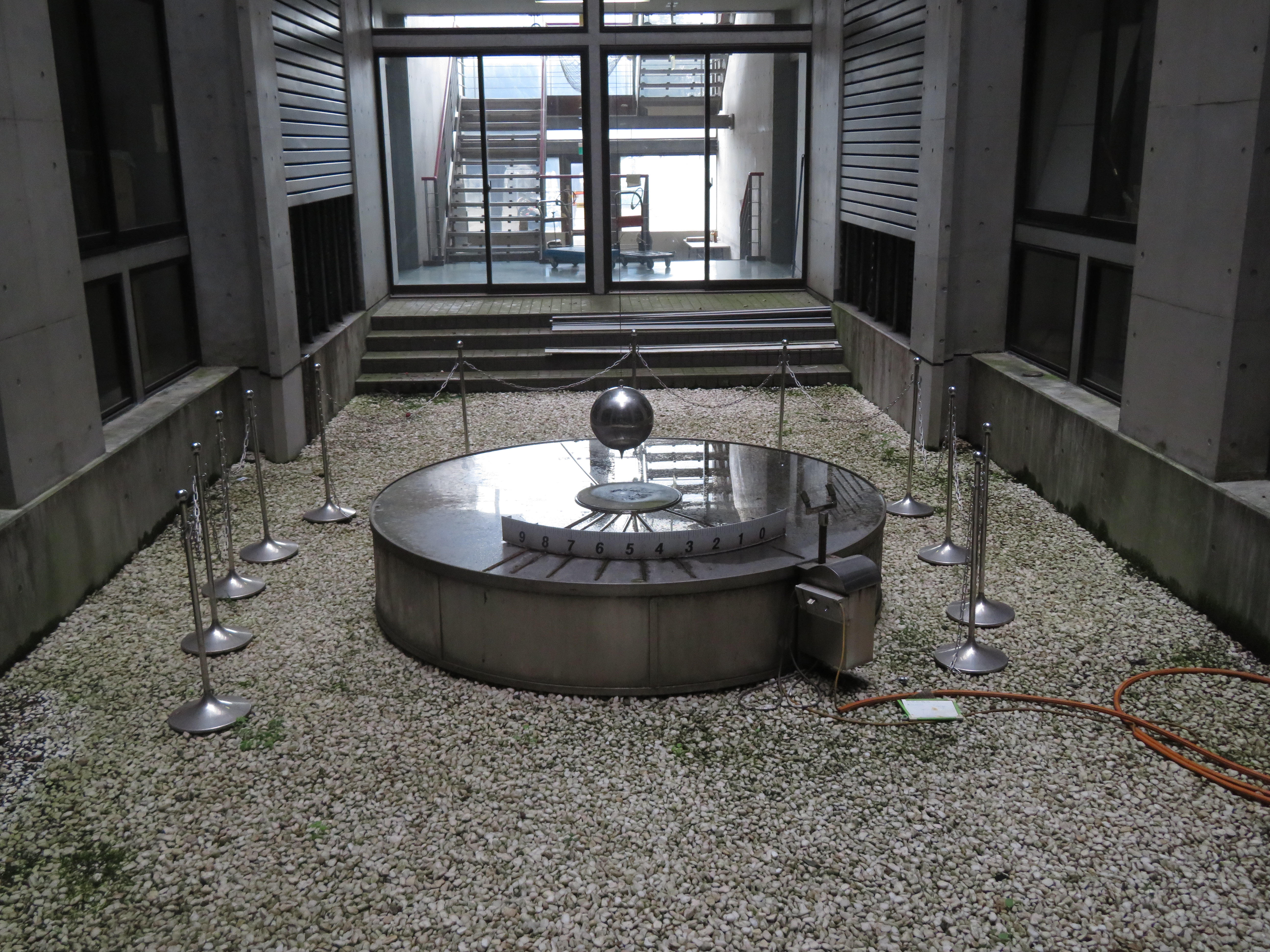 Foucault pendulum in Chiba University